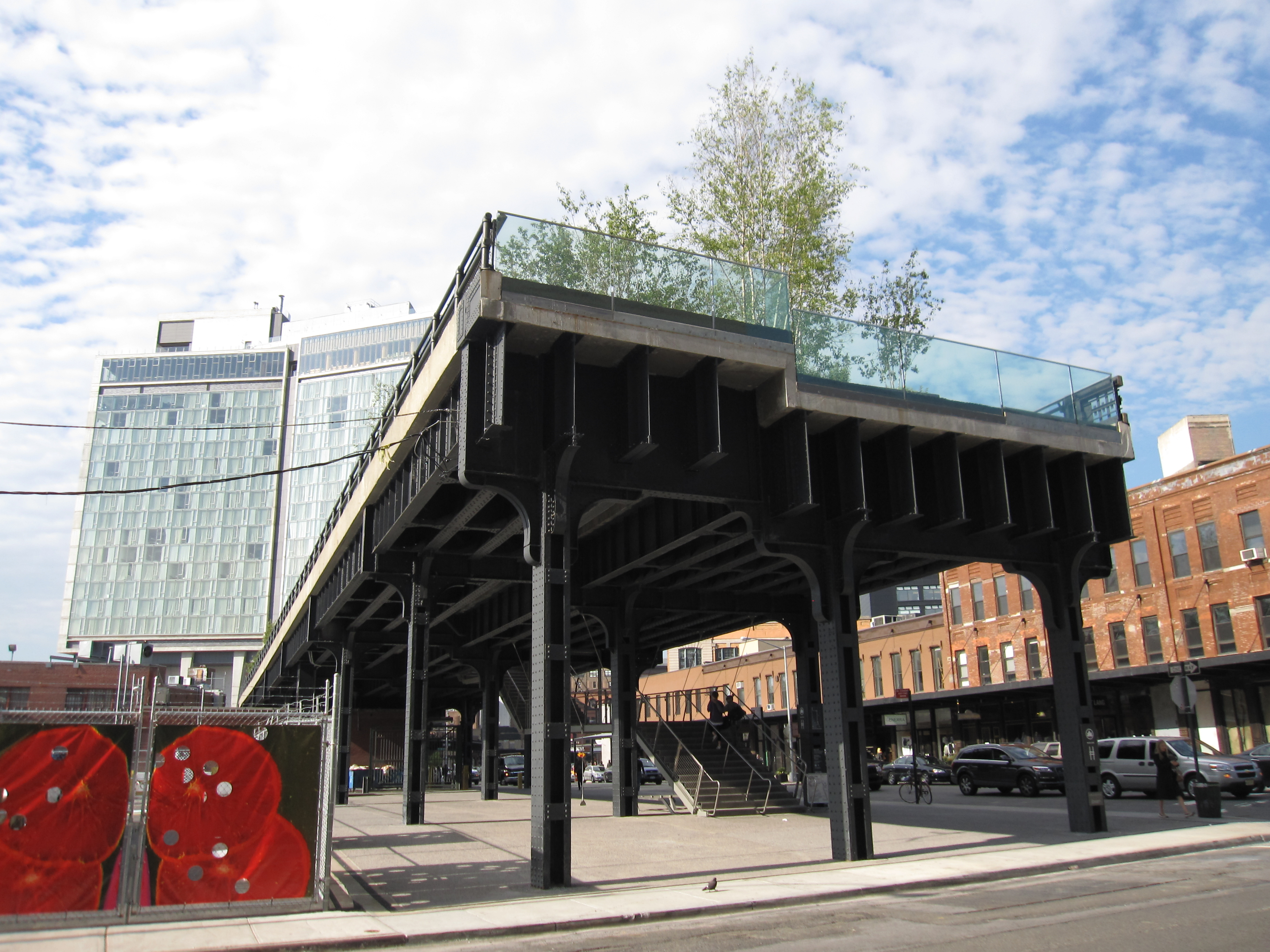 High Line (New York City)